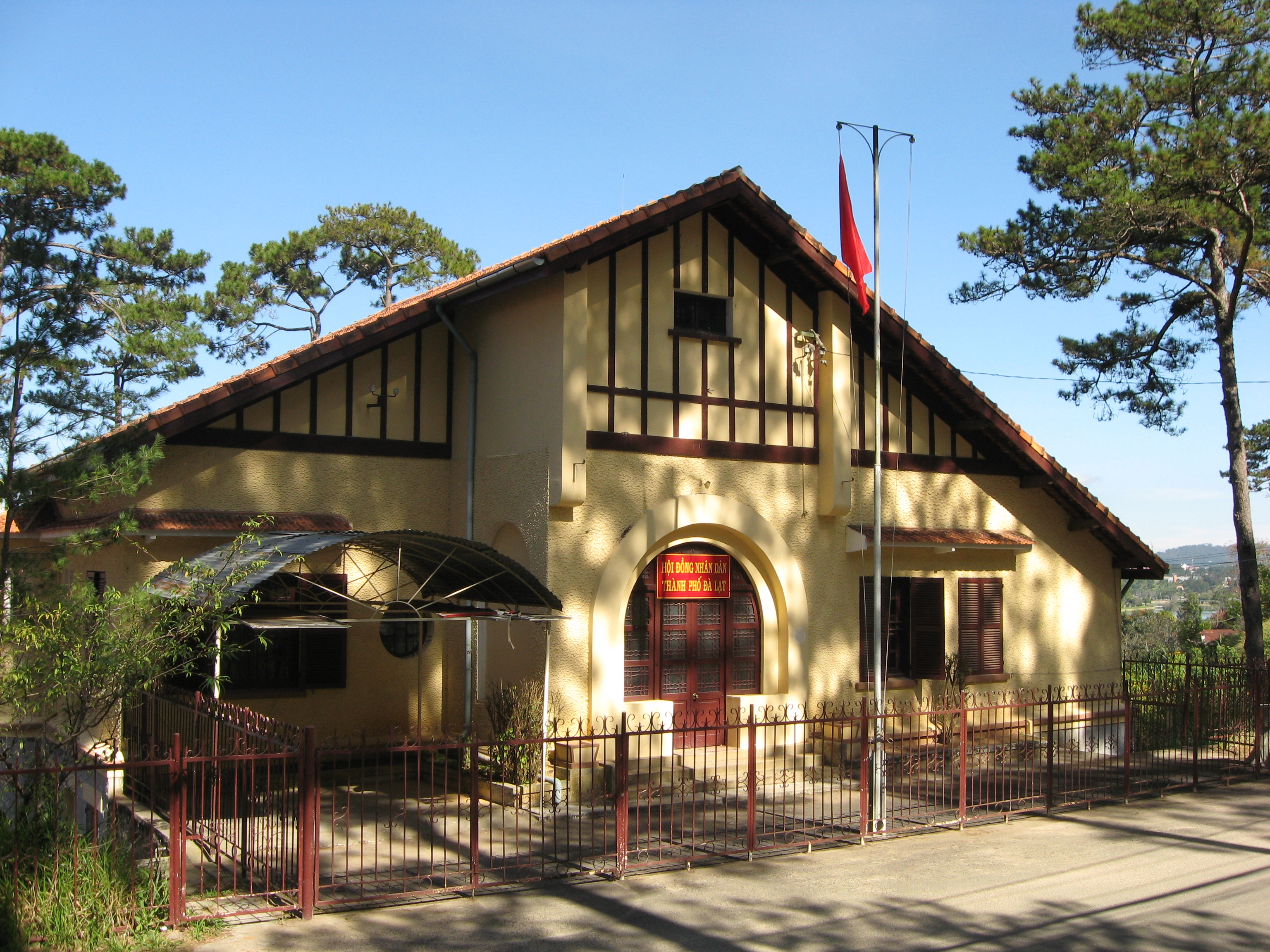 Hoi dong nhan dan thanh pho Da Lat